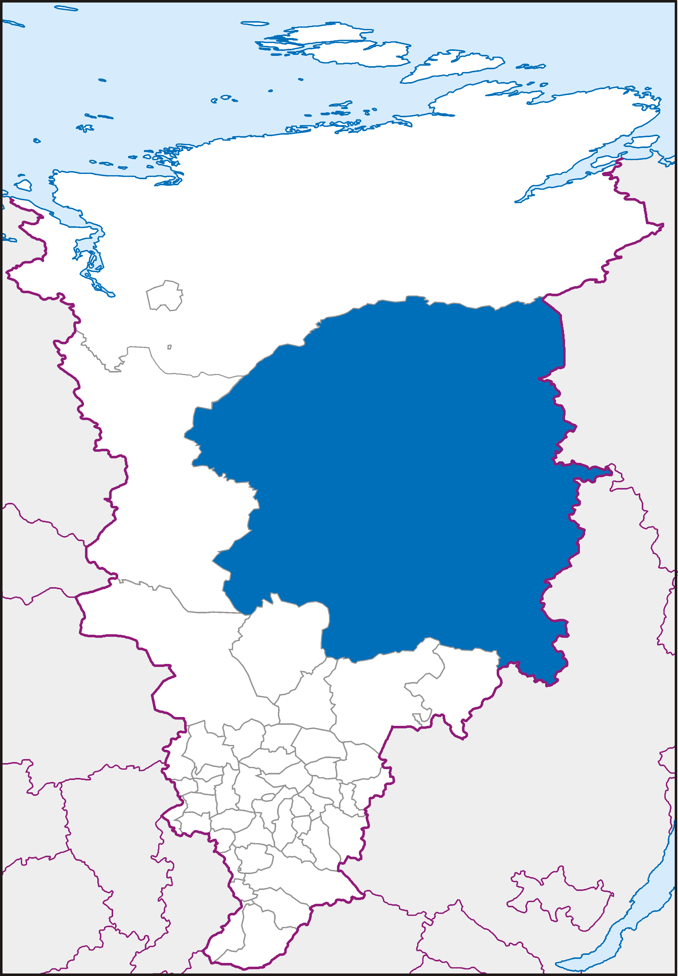 Map of Krasnoyarsk Krai in Albers Equal-Area Conic projection (Central Meridian = 95° E)